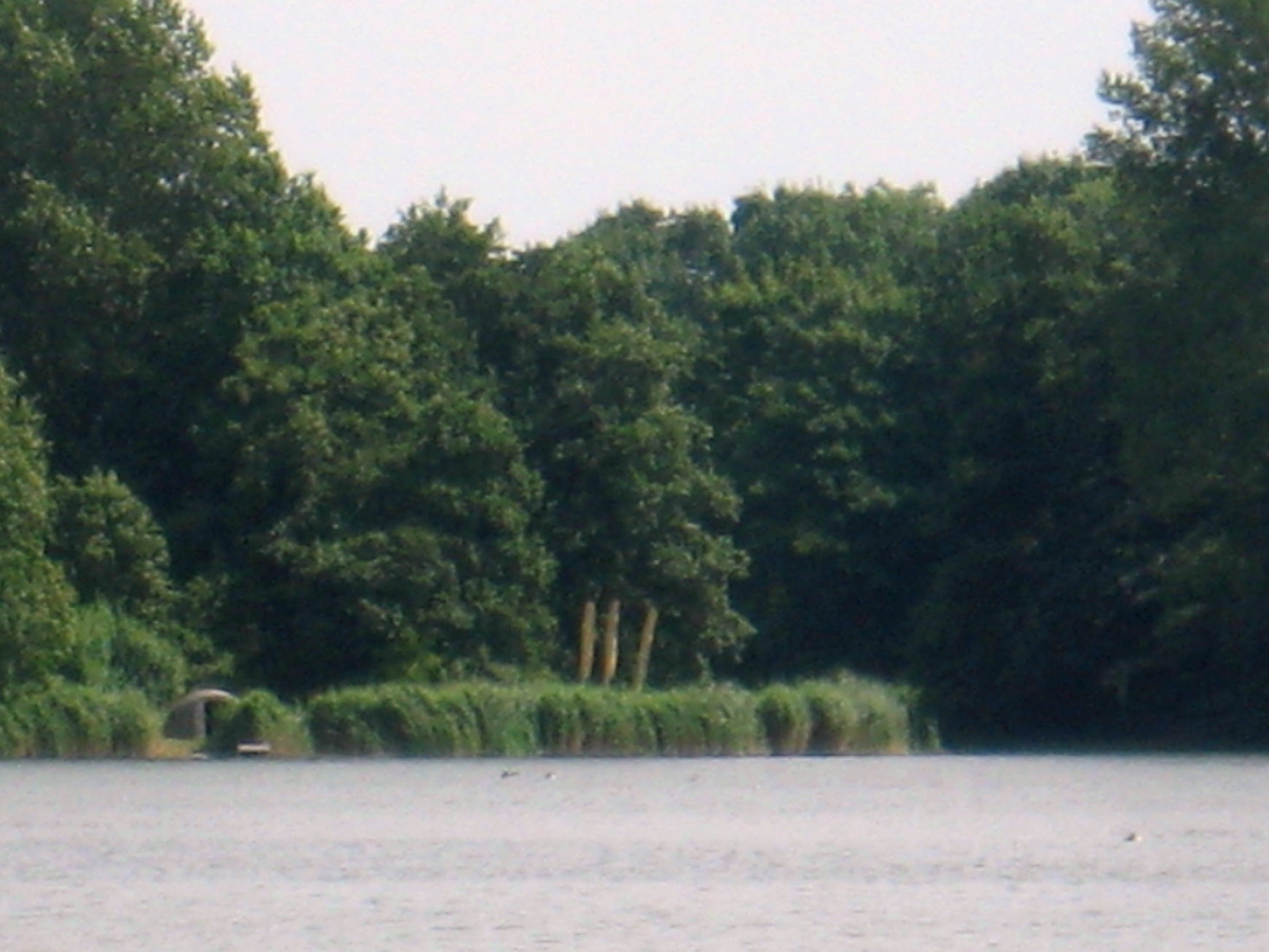 art at Delftse Hout